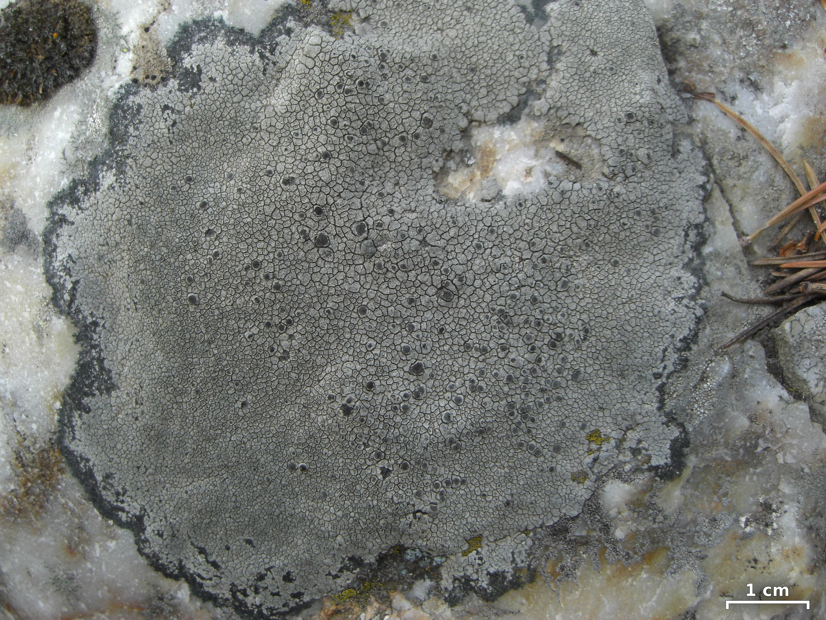 The lichen Bellemerea alpina (Sommerf.) Clauzade & Cl. Roux. Photographed in Meadow Lake, Lemhi Mountains, Salmon-Challis National Forest, Lemhi Co., Idaho, USA.